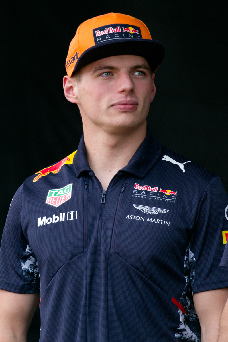 Formula One 2017 Rd.15 Malaysian GP: Max Verstappen (Red Bull) at the fan meeting